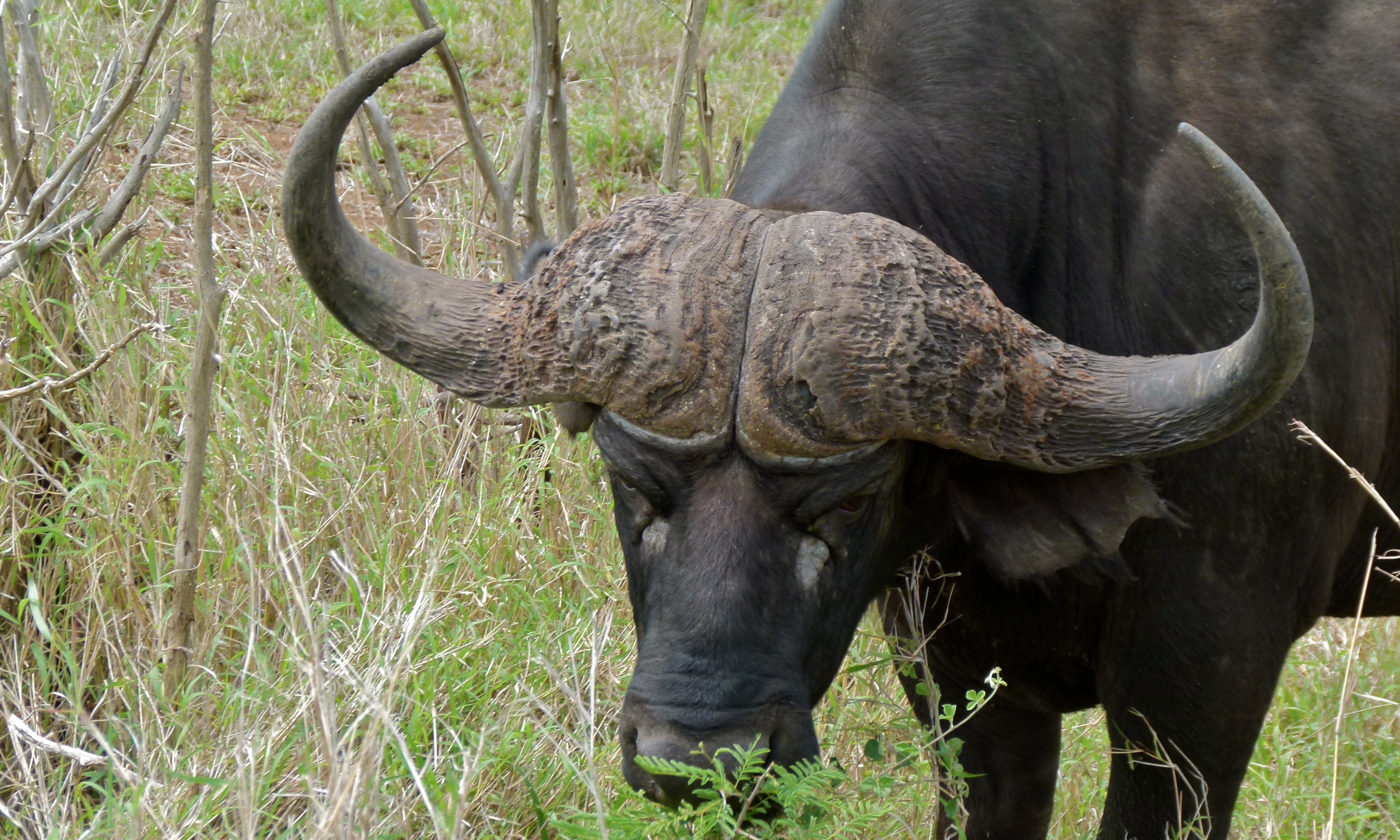 S36 South of Nhlanguleni, Kruger NP, SOUTH AFRICA